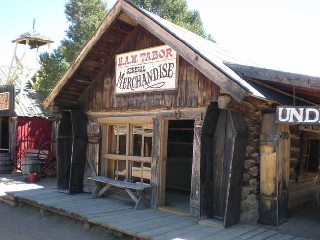 Horace Tabor's general store, originally in Buckskin Joe, Colorado, USA; now in the western movie set and theme park of Buckskin Joe.